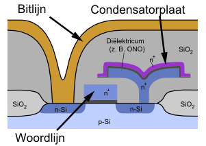 1T-1C DRAM cell with a stacked capacitor